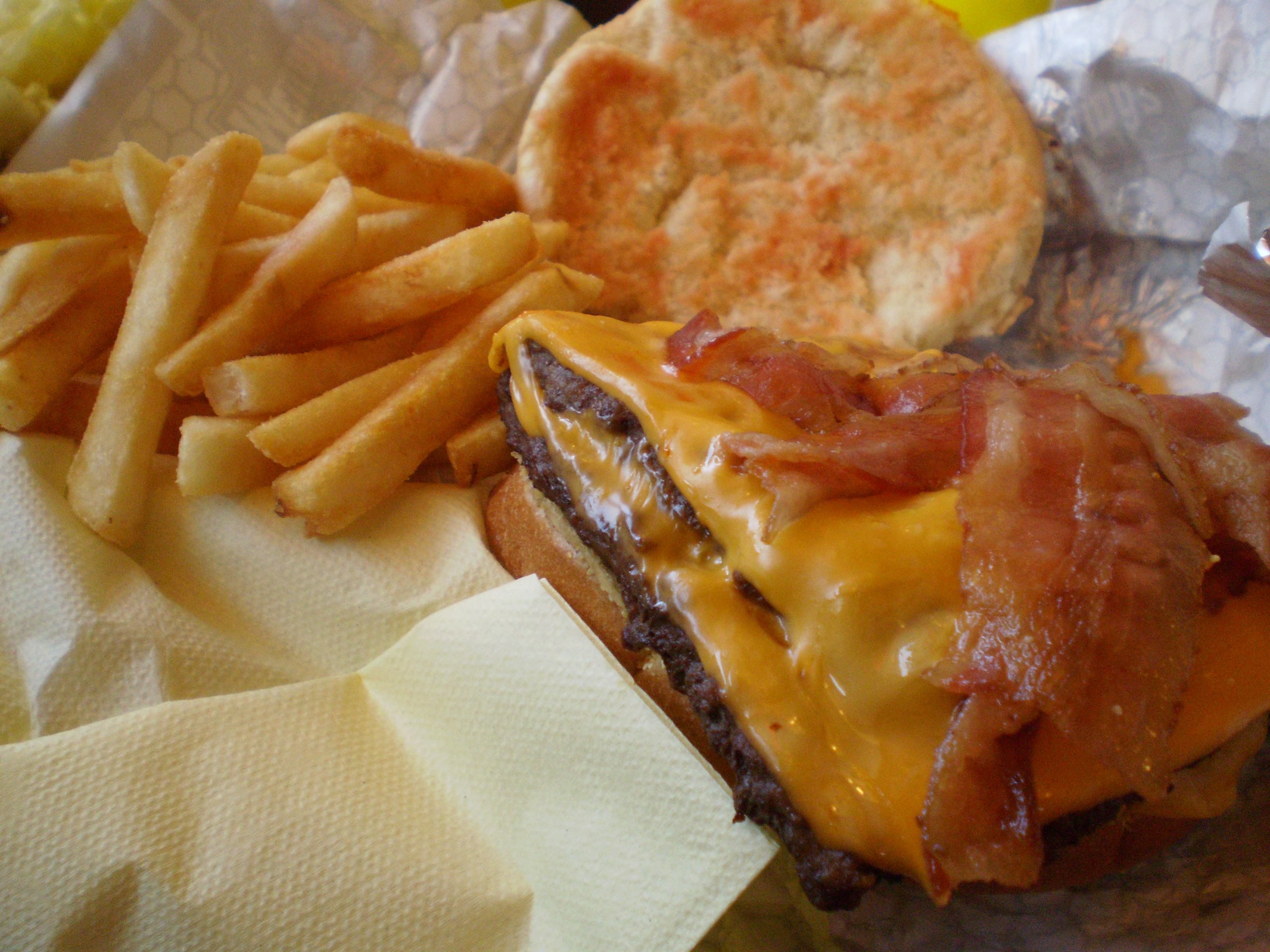 A Wendy's Baconator burger, opened (making my crude attempt to remove the ketchup from the bun visible) and sat alongside fries.